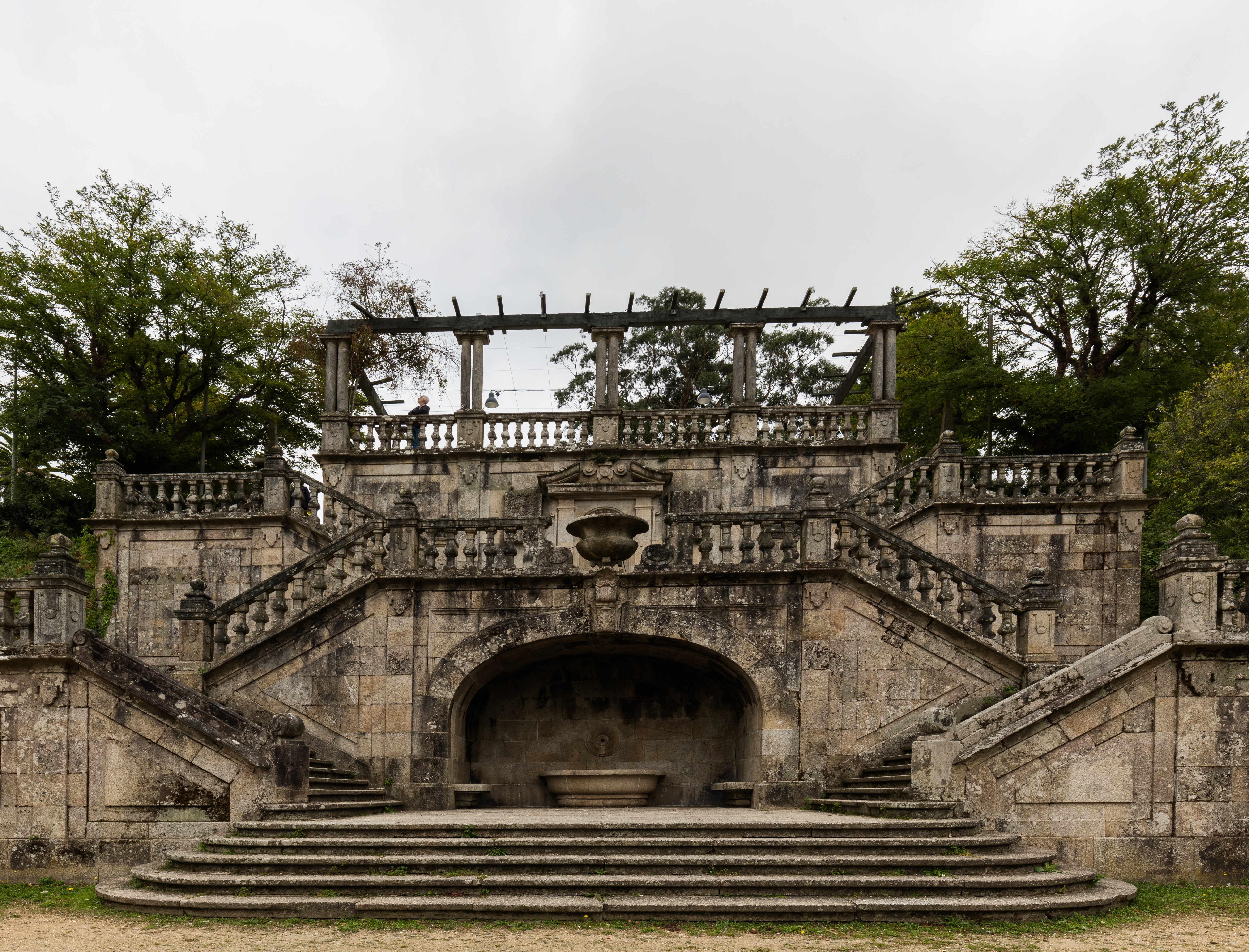 Alameda Park, Santiago de Compostela, Spain